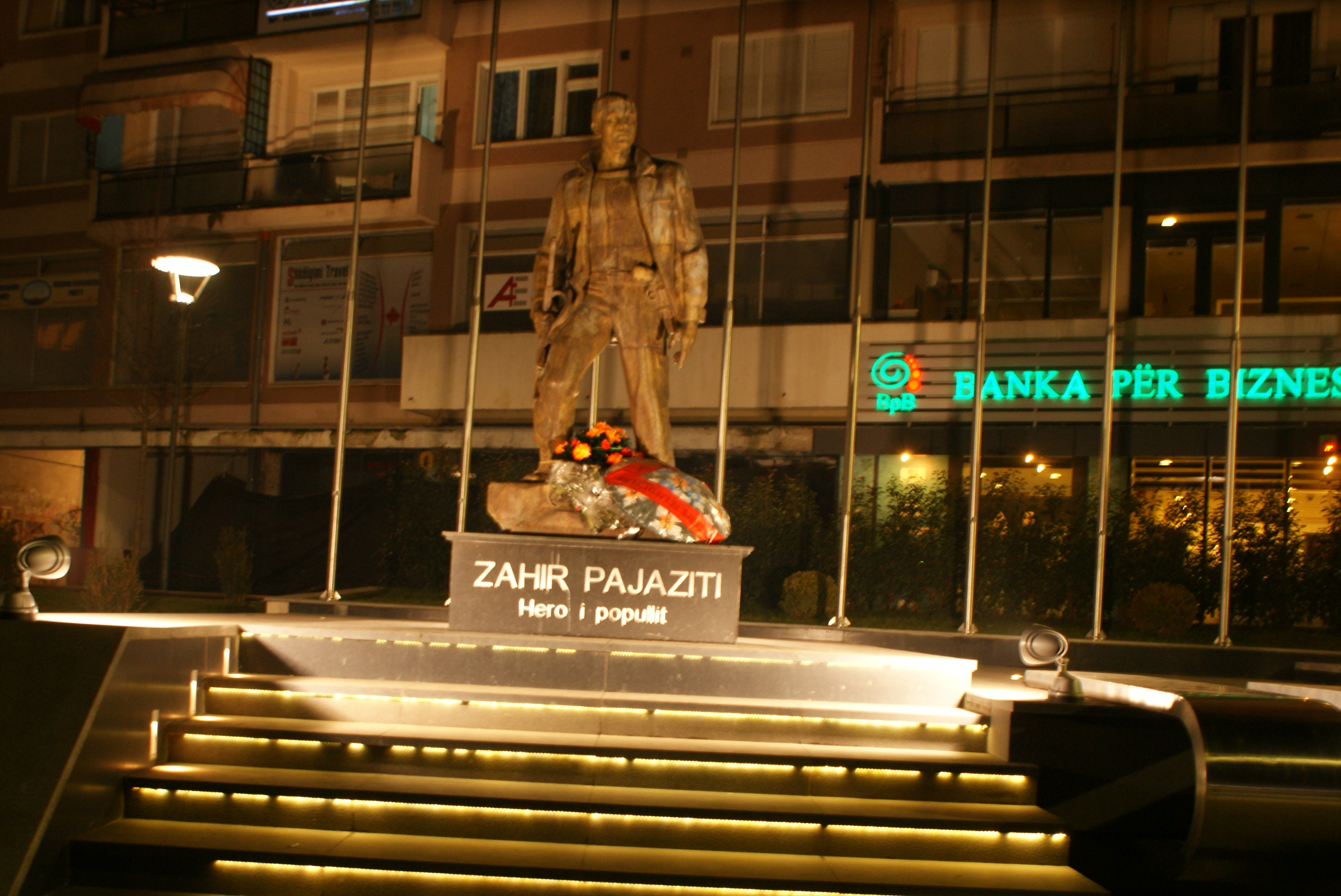 Bust of Zahir Pajazitit, that was killed from serbians.